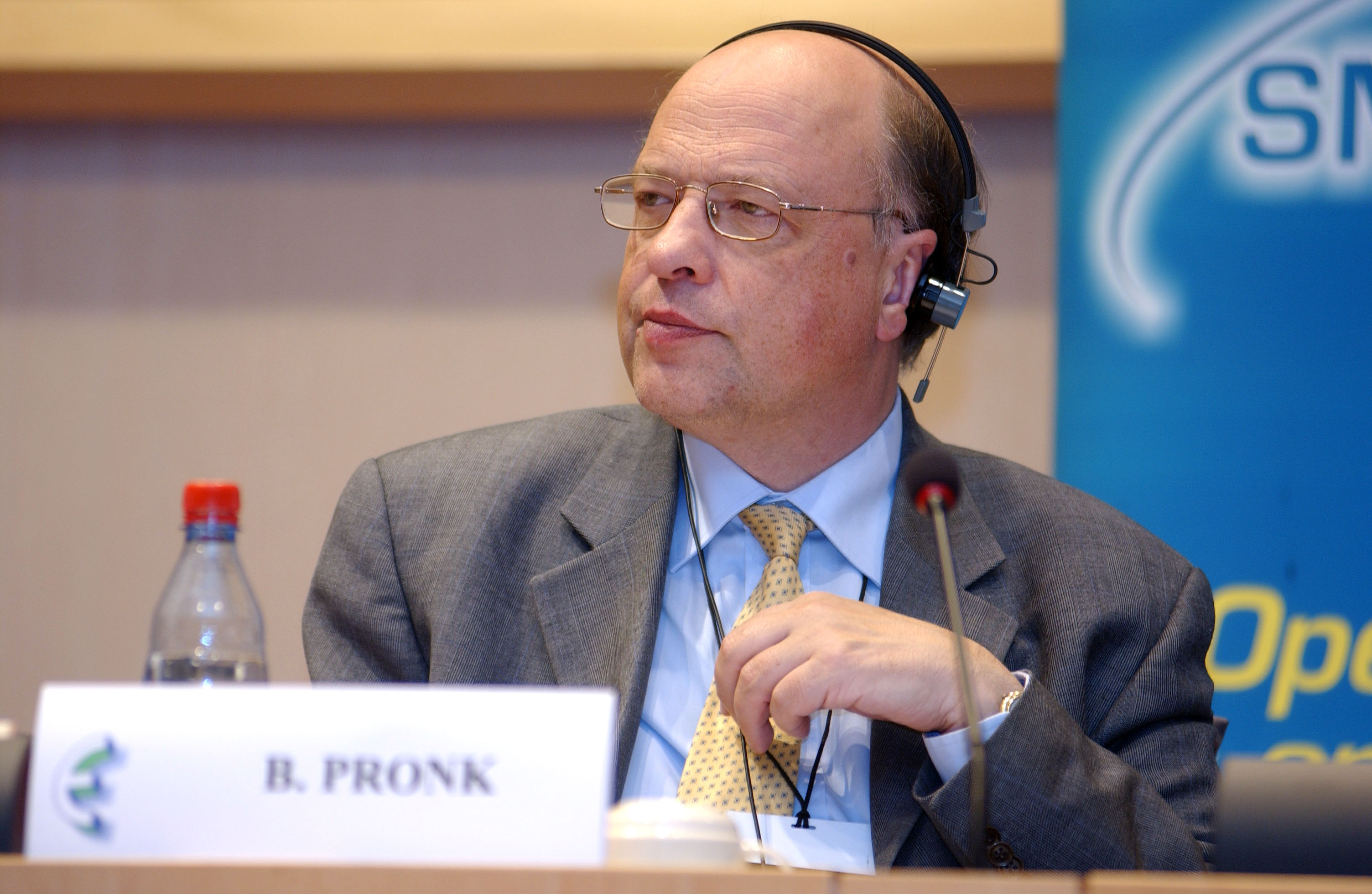 Bartho Pronk at the EPP Conference on Lisbon Strategy 25 November 2004